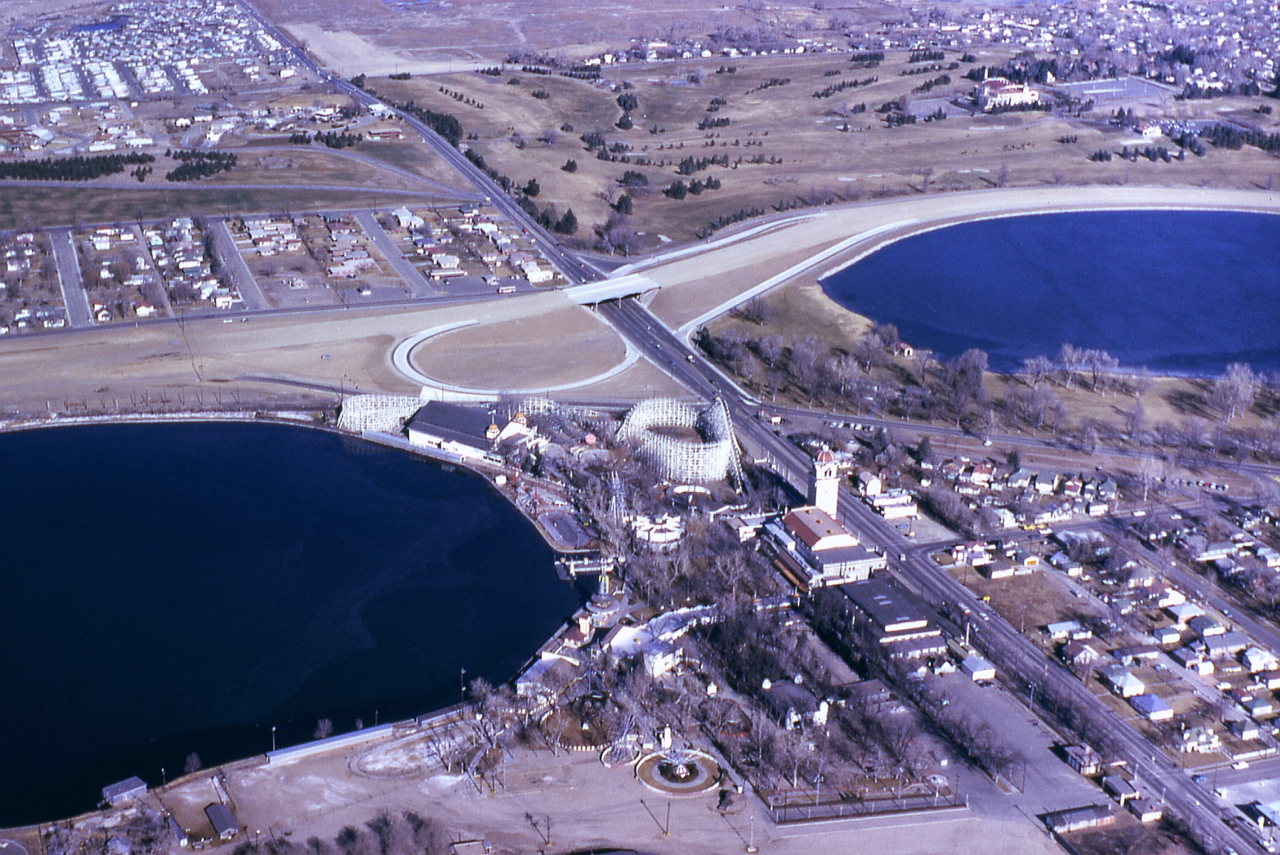 Aerial view of Lake Side, in Denver, Colorado, viewed from SSW to NNE. Taken with an Exakta VX SLR 35mm camera, using Ektachrome slide film.